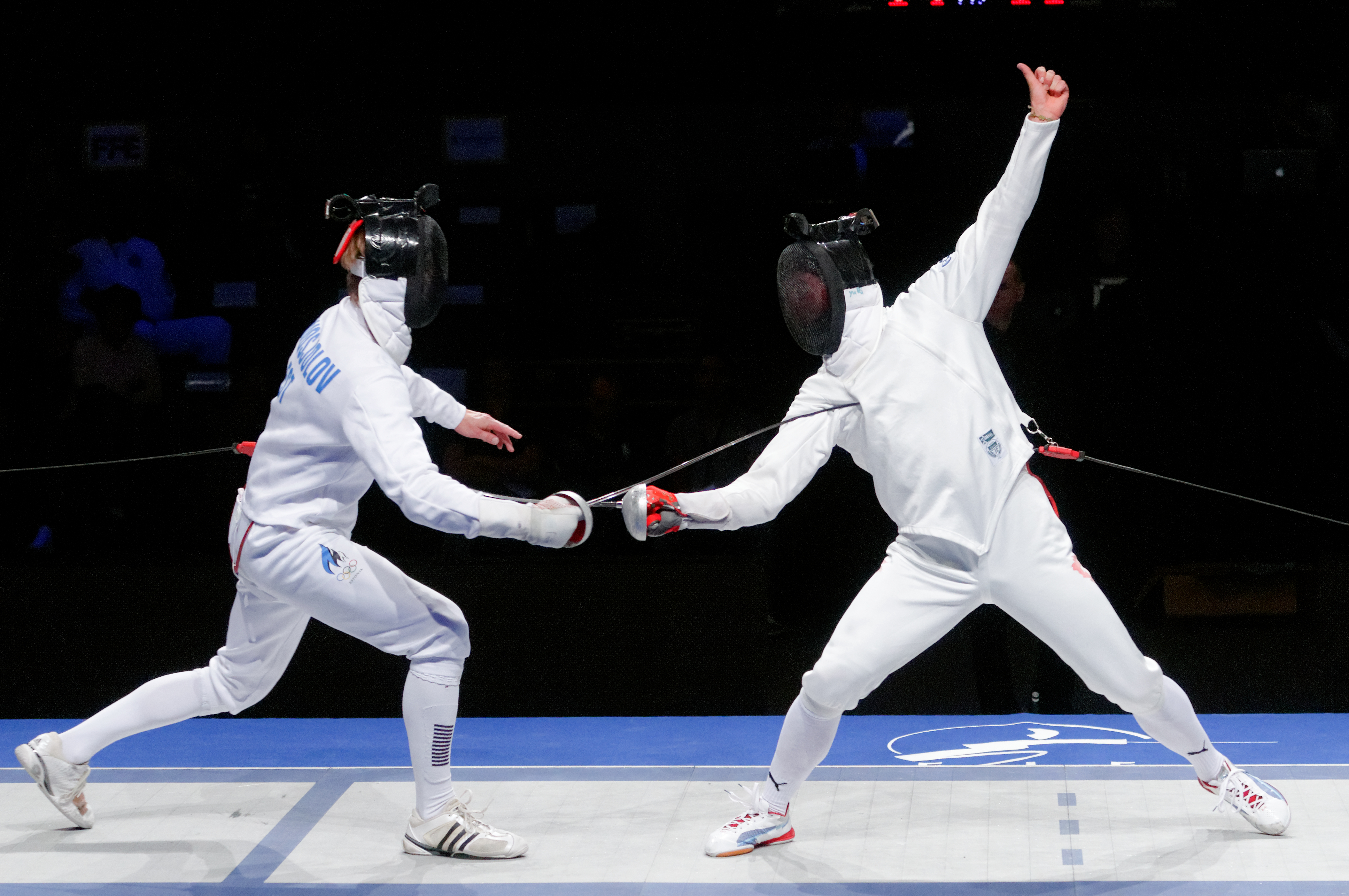 Final of the Masters à l'épée 2012: Nikolai Novosjolov (left) against Fabian Kauter (right).